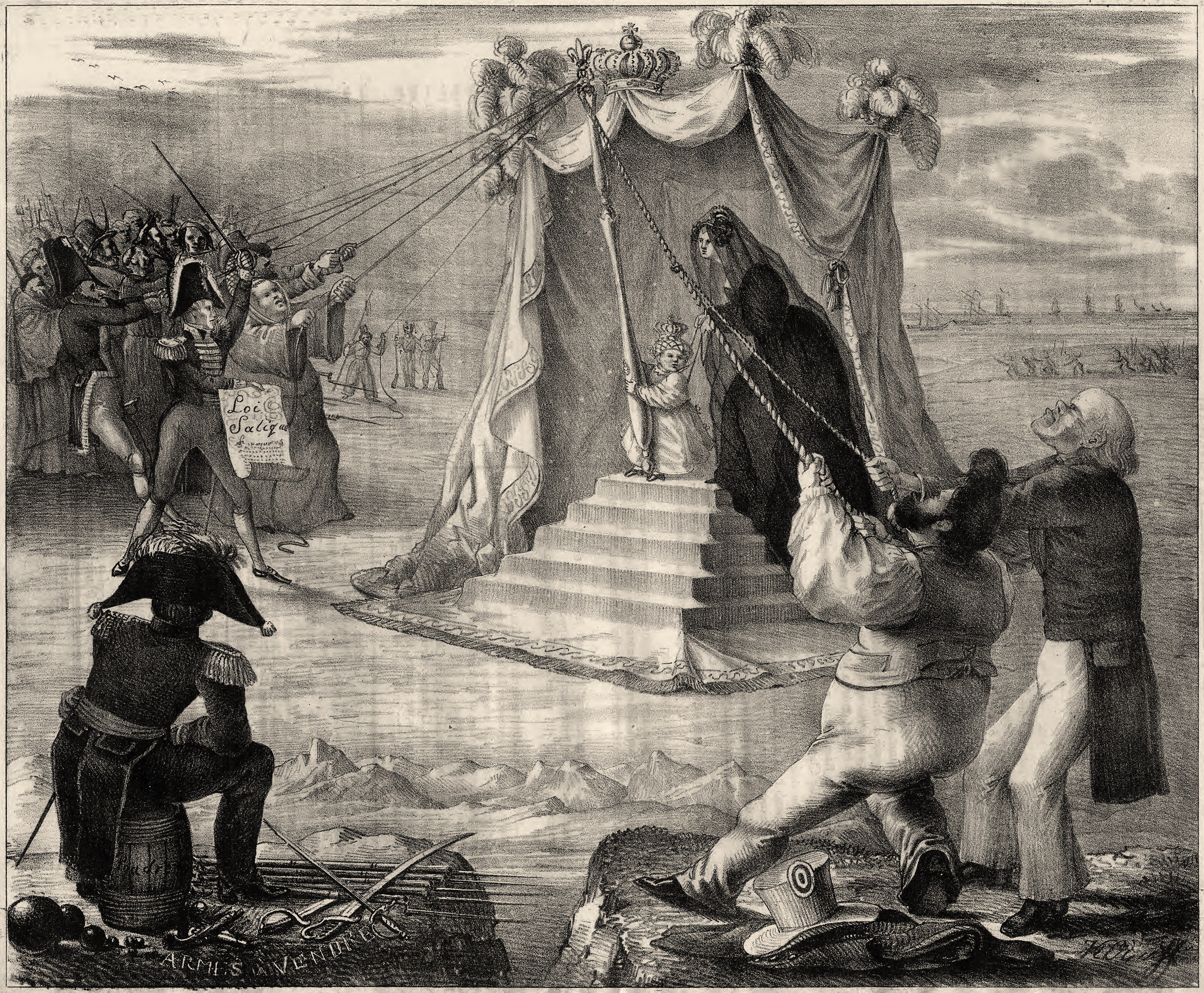 A French officer is holding the salic law in front of the Spanish infant.